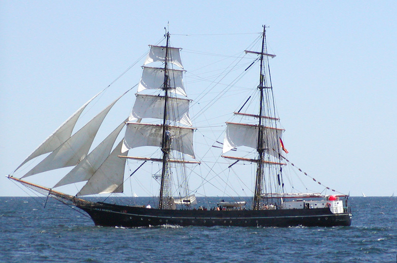 Brigg Roald Amundsen at Kiel Week 2008